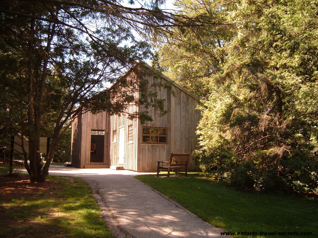 watermarked with